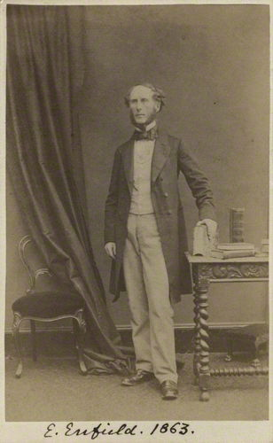 Portrait of Edward Enfield (1811–1880), English philanthropist.